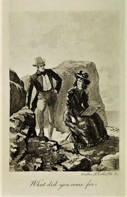 An 1901 illustration of a scene from Chapter 7 of Anne Brontë's The Tenant of Wildfell Hall. Gilbert Markham is on the left, Helen Graham on the right. Helen asking: "What did you come for?"